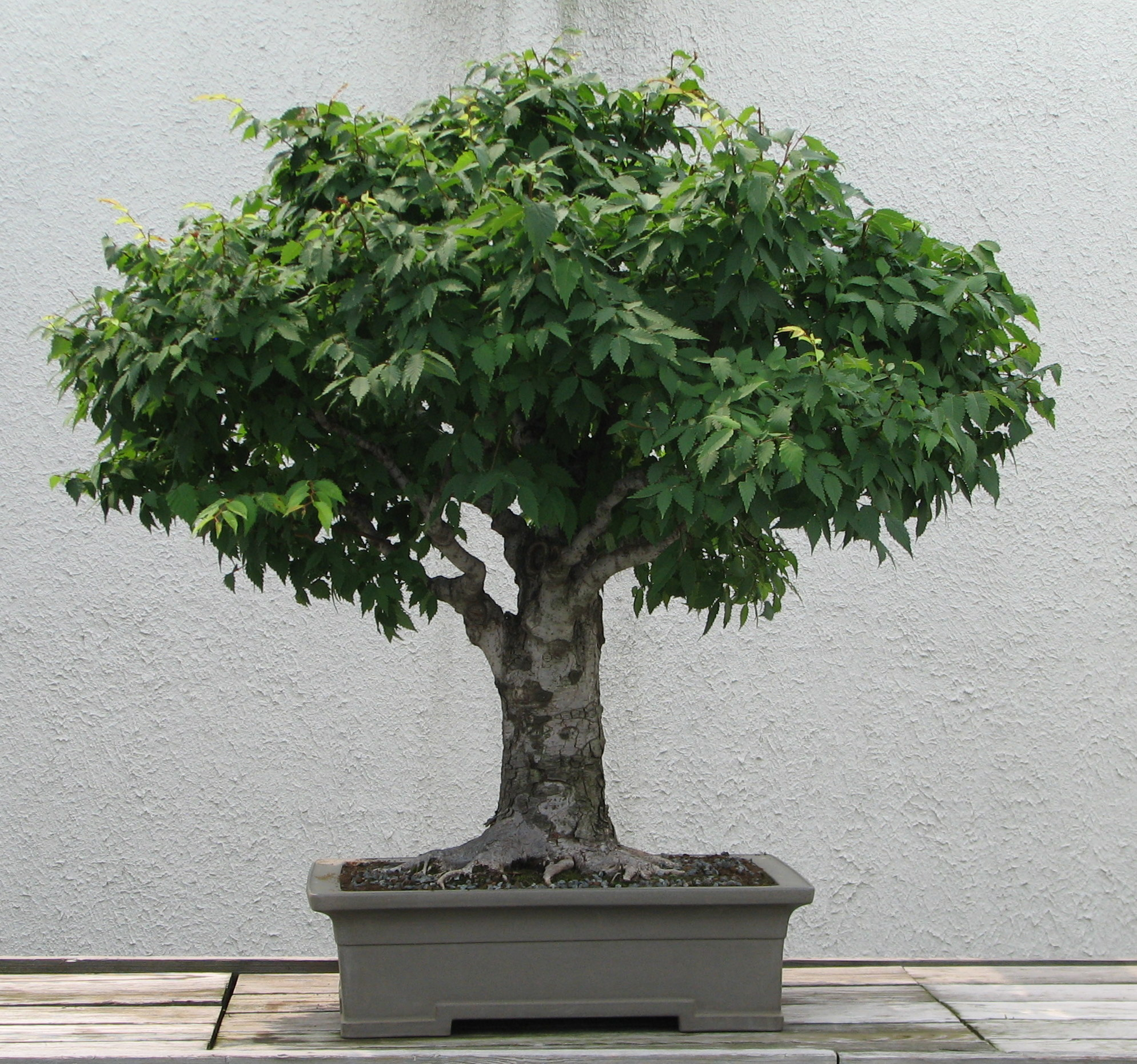 A Japanese Zelkova (Zelkova serrata) bonsai on display at the National Bonsai & Penjing Museum at the United States National Arboretum. According to the tree's display placard, it has been in training since 1895. It was donated by Yoshibumi Itoigawa.